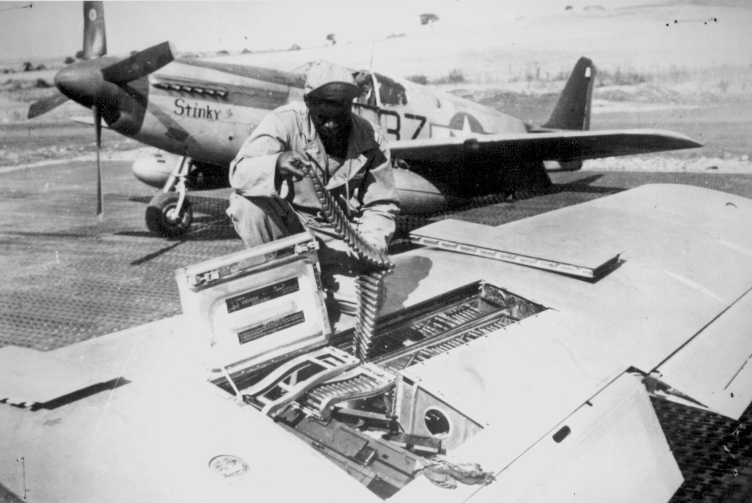 A USAAF armourer of the 100th Fighter Squadron, 332nd Fighter Group, 15th U.S. Air Force checks ammunition belts of the .50 caliber (12.7 mm) machine guns in the wings of a North American P-51B Mustang in Italy, ca. September 1944. The 332nd Fighter Group was composed of Afro-American pilots and ground support personnel trained at Tuskegee, Alabama (USA), and the members of the group became collectively known as the "Tuskegee Airmen". Original caption: "An armorer of the 15th U.S. Air Force checks ammunition belts of the .50 caliber machine guns in the wings of a P-51 Mustang fighter plane before it leaves an Italian base for a mission against German military targets. The 15th Air Force was organized for long range assault missions and its fighters and bombers range over enemy targets in occupied and satellite nations, as well as Germany itself.", ca. 09/1944."